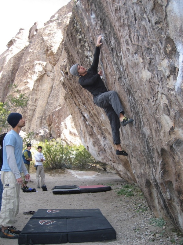 it's super smooth up to 10' high supposedly from mammoths scratching up against them during the ice-age.